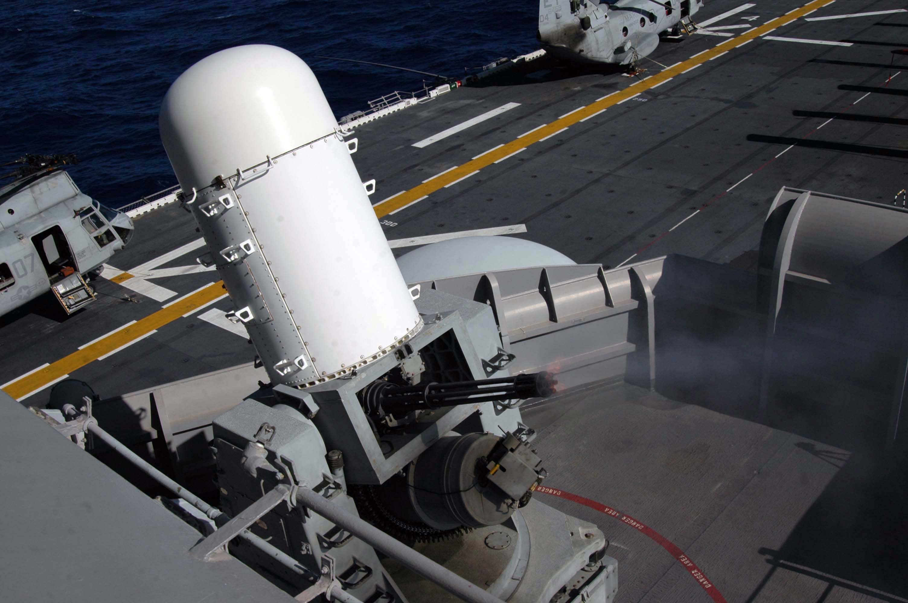 Pacific Ocean (Oct. 13, 2005) - A Close-In Weapon System (CIWS) fires during a Pre-Aim Calibration (PAC) fire aboard the amphibious assault ship USS Essex (LHD 2). CIWS is the self-defense system that combines a 20mm Gatling gun with search and tracking radar to provide surface ships with terminal defense against anti-ship missiles. Essex is currently underway in the Pacific Ocean conducting training exercises. U.S. Navy photo by Photographer's Mate Airman Nicholas C. Messina (RELEASED)